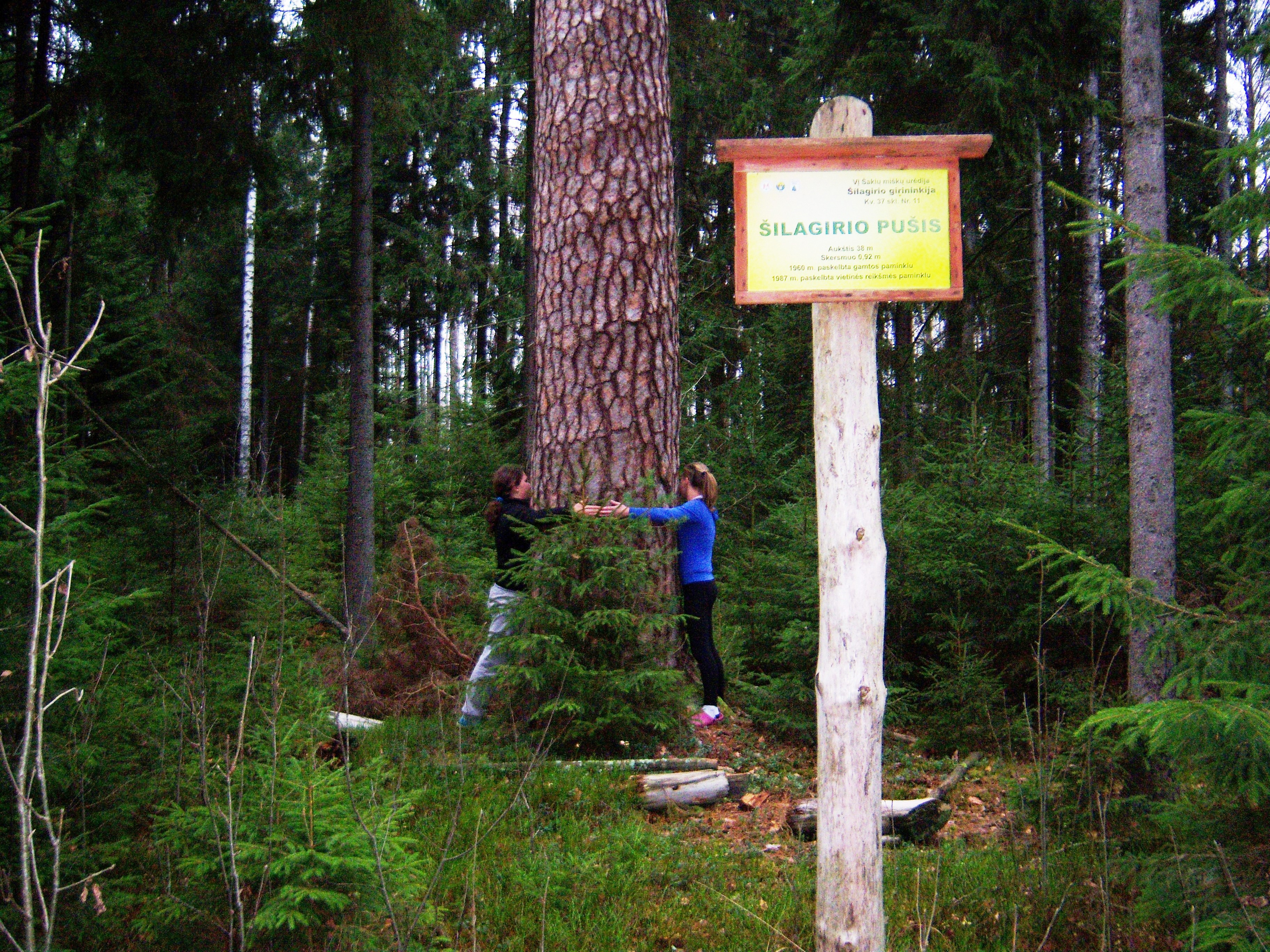 Šilagiris pine tree, Kaunas District, Lithuania